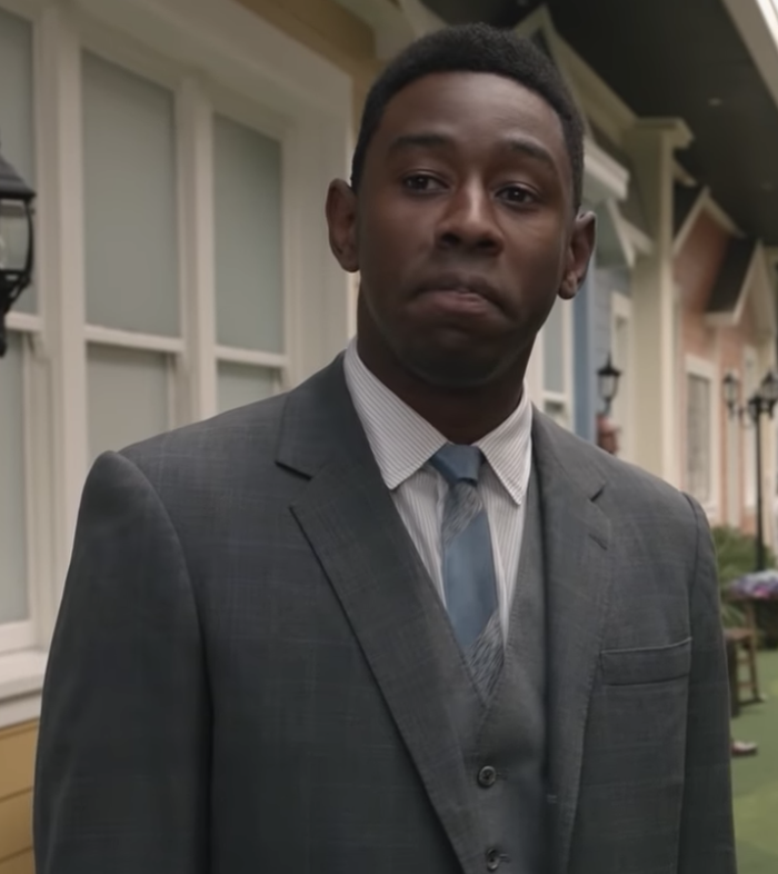 Tyler, The Creator in an episode of the Showtime series Kidding